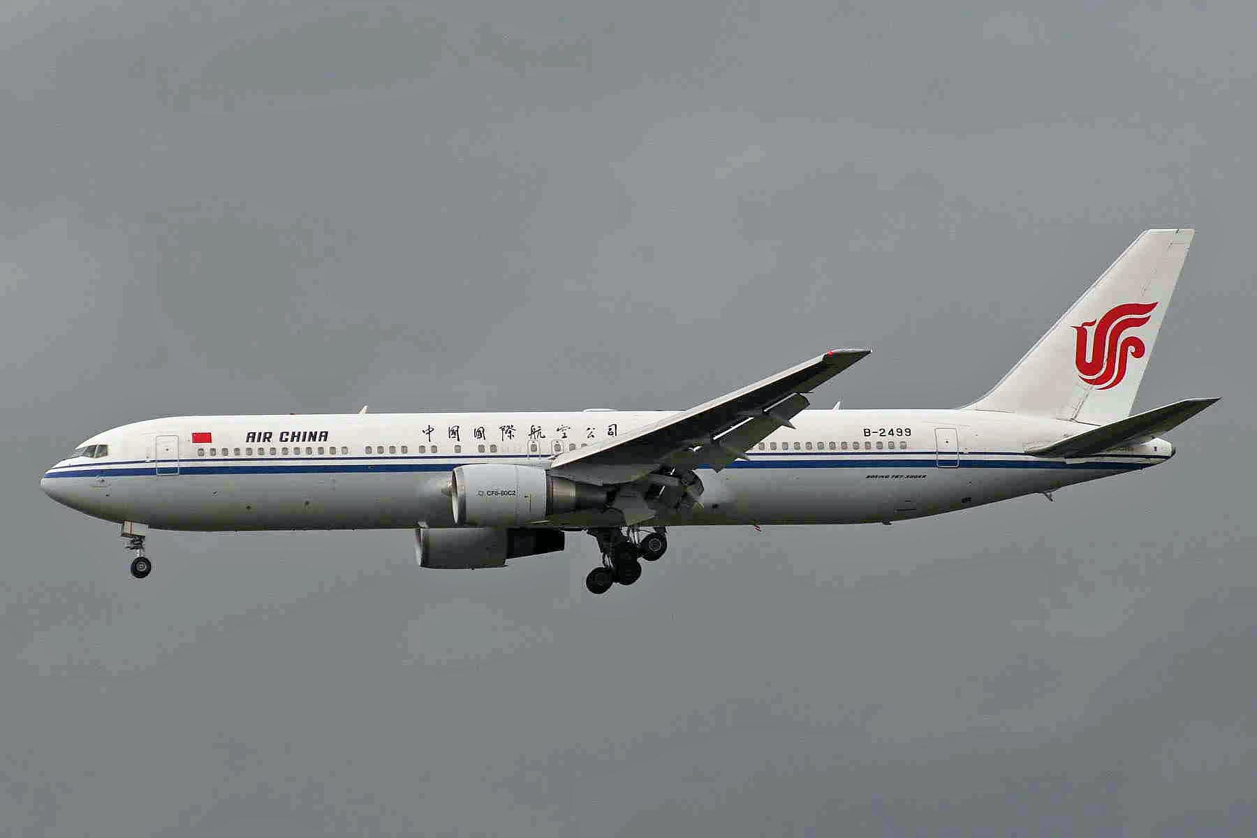 Used to carry a bunch of spy bugs. Now serving Sunday Airlines as UP-B6703.